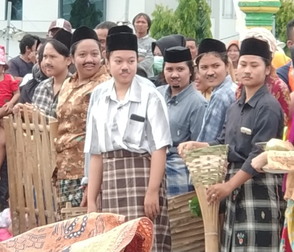 A group of Calalai (one of the five traditional genders of Bugis society) during a parade in Soppeng (South Sulawesi, Indonesia) on 17 December 2018 as part of the La Galigo Festival.